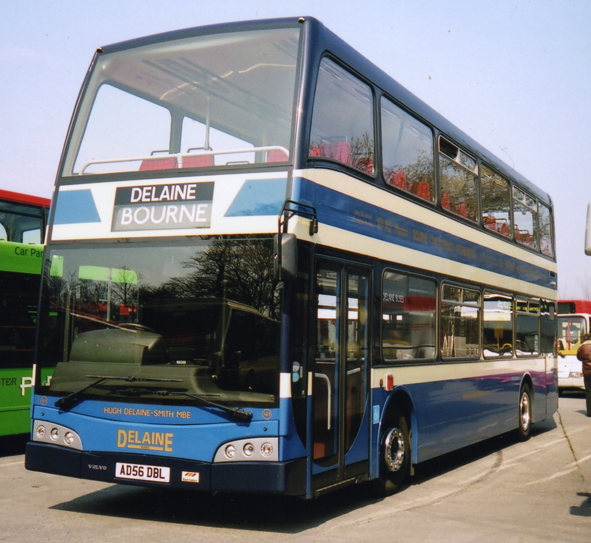 The first ever East Lancs Olympus, run by Delaine Buses, at the 2007 Cobham bus rally at Longcross.